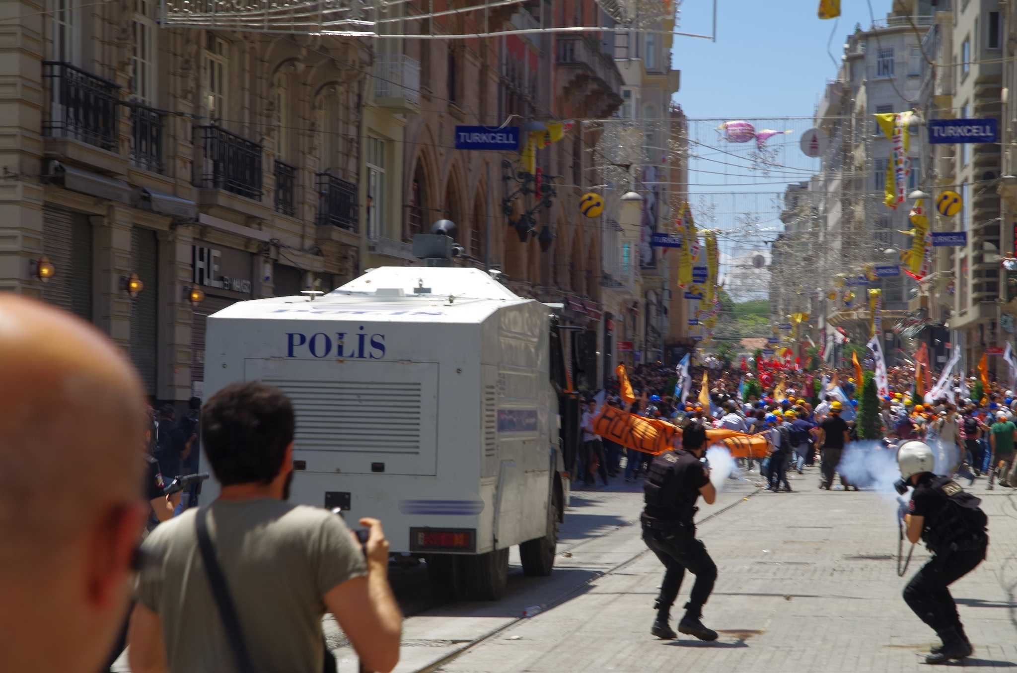 Tear Gas used on İstiklâl Caddesi near Taksim Square, İstanbul